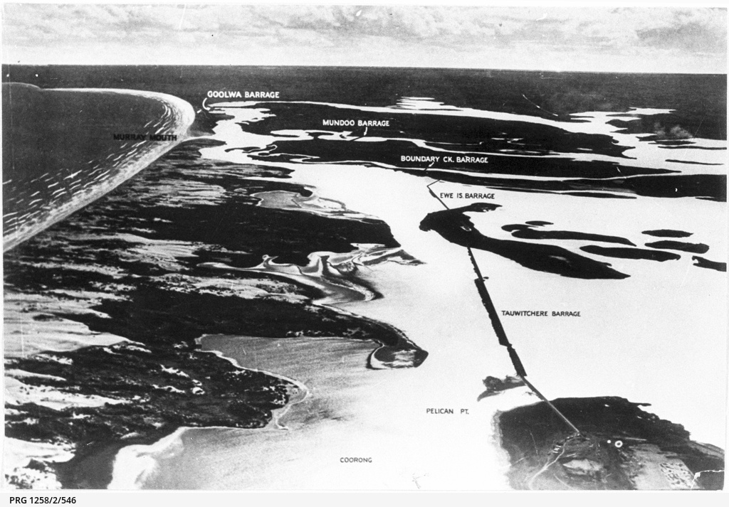 Aerial view of the River Murray barrages, with superimposed text providing locations of Goolwa barrage, Mundoo barrage, Boundary Creek barrage, Ewe Island barrage and Tauwitchere barrage, as viewed from the Coorong towards the Murray Mouth, circa 1940 (State Library of South Australia - PRG-1258/2/546).